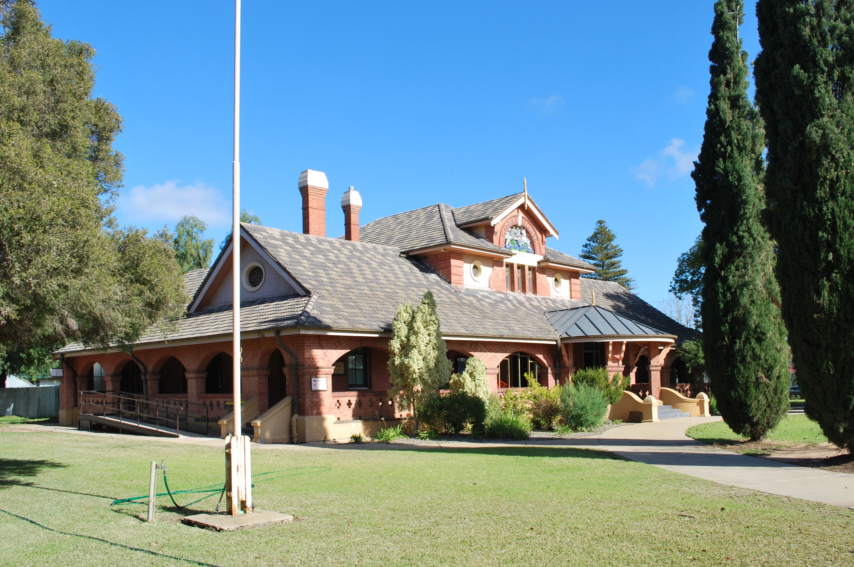 Court house at Hay, New South Wales